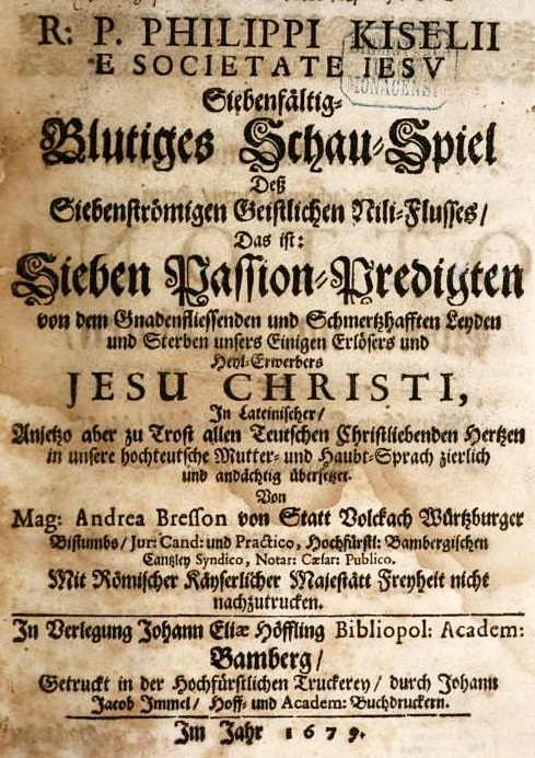 Philipp Kisel (1609-1681), Jesuit, Passionspredigten, Bamberg 1679